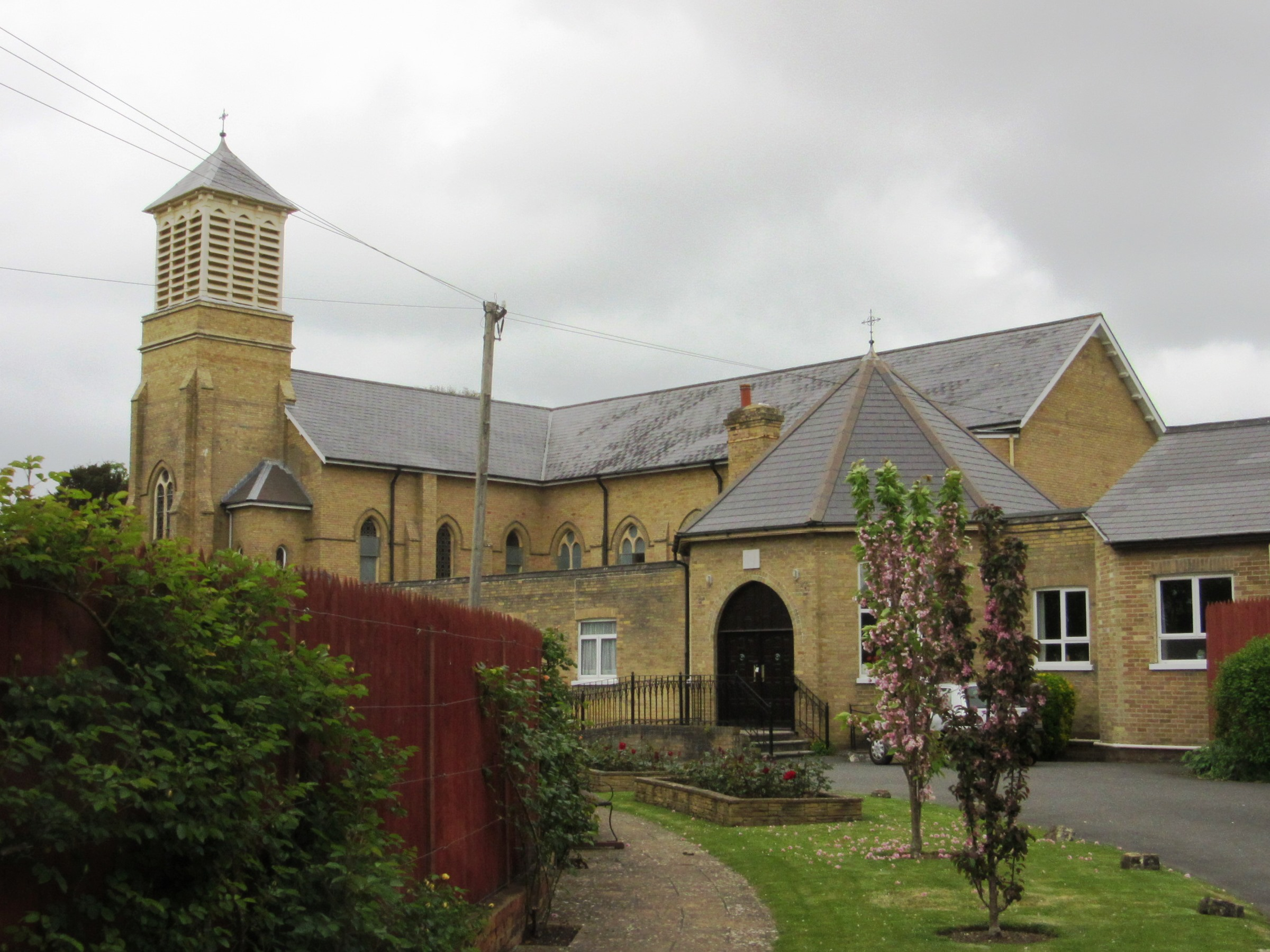 St Cecilia's Abbey, Appley Rise, Ryde, Isle of Wight, England. As well as being a Benedictine abbey, this chapel holds regular public Roman Catholic Masses and is accordingly registered as a public place of worship. It is within the Catholic Parish of Ryde and is a locally listed building.